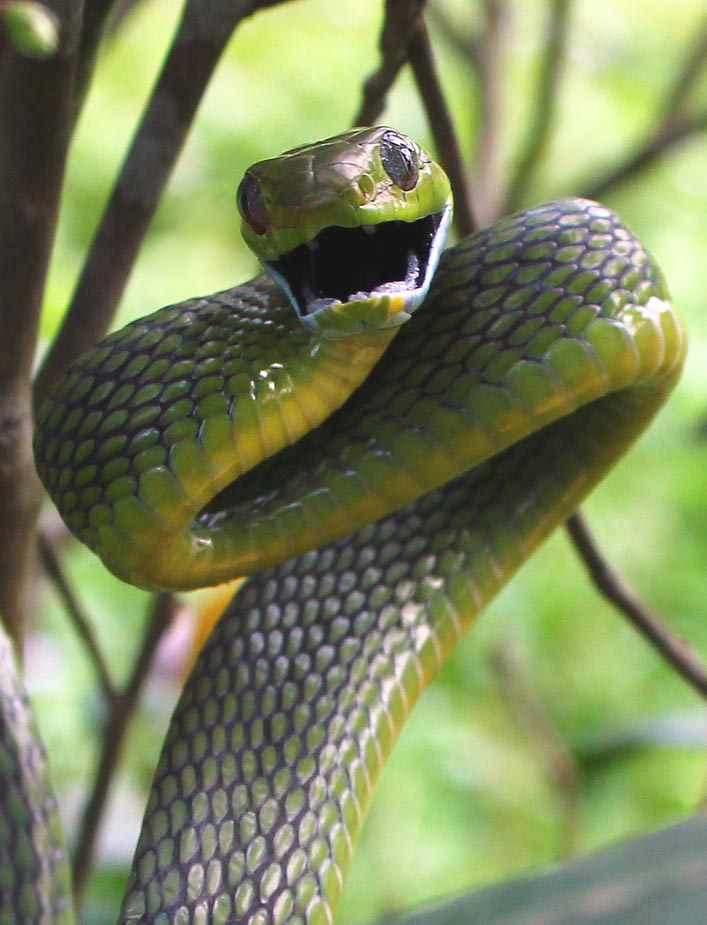 If threatened , will Hisssss......... and posture with a wide open mouth.